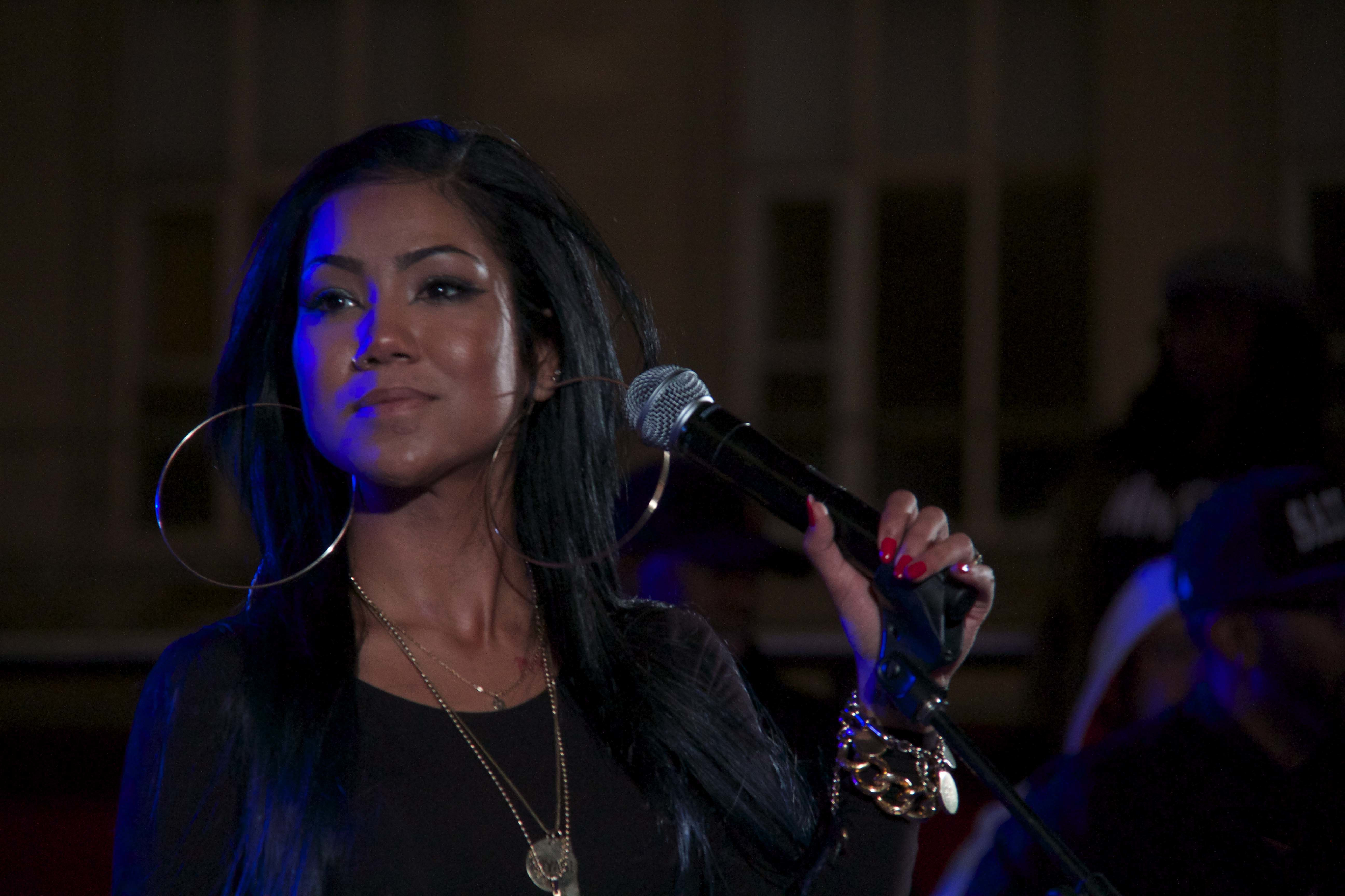 The Manifesto Year 7 Live at The Square Sep 22 2013 Featuring acts such as John river, Wolf J mcfarlane, Jhene Aiko, Souls of Mischief, Freedom Writers, Jully Black, Kardinal Offishal, Solitiar, Junia-T, TFHOUSE and more! Photography by CZRE-E for The Come Up Show